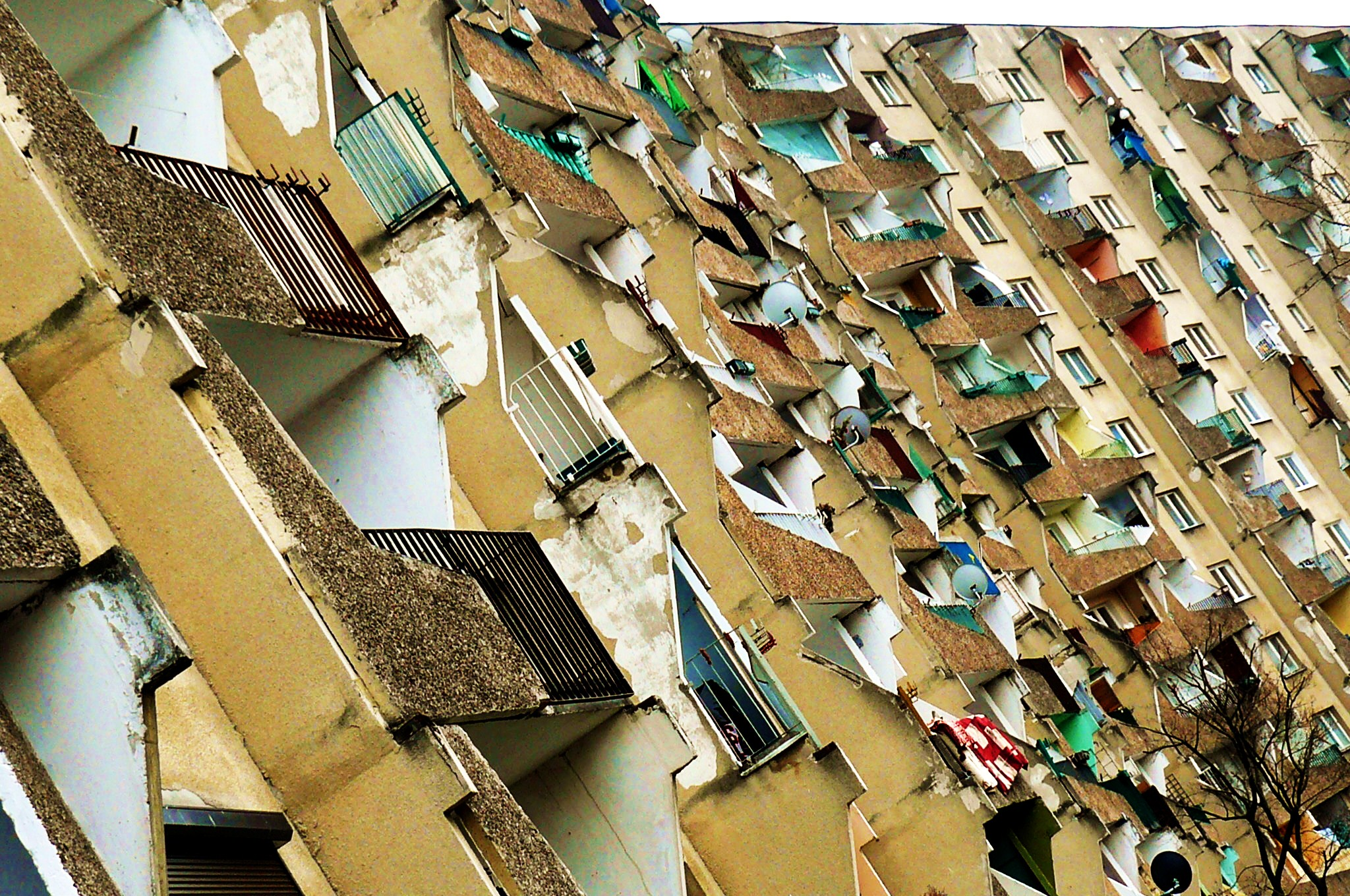 Rusa District in Poznan.